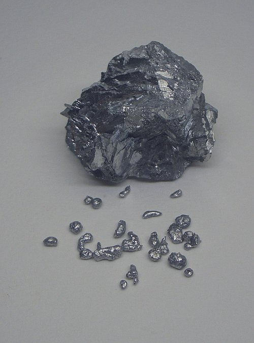 A hunk of the semimetal antimony with several pieces